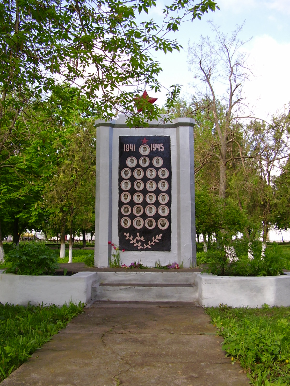 Monument Česky: Pomník padlým československým vojákům a rudoarmějcům